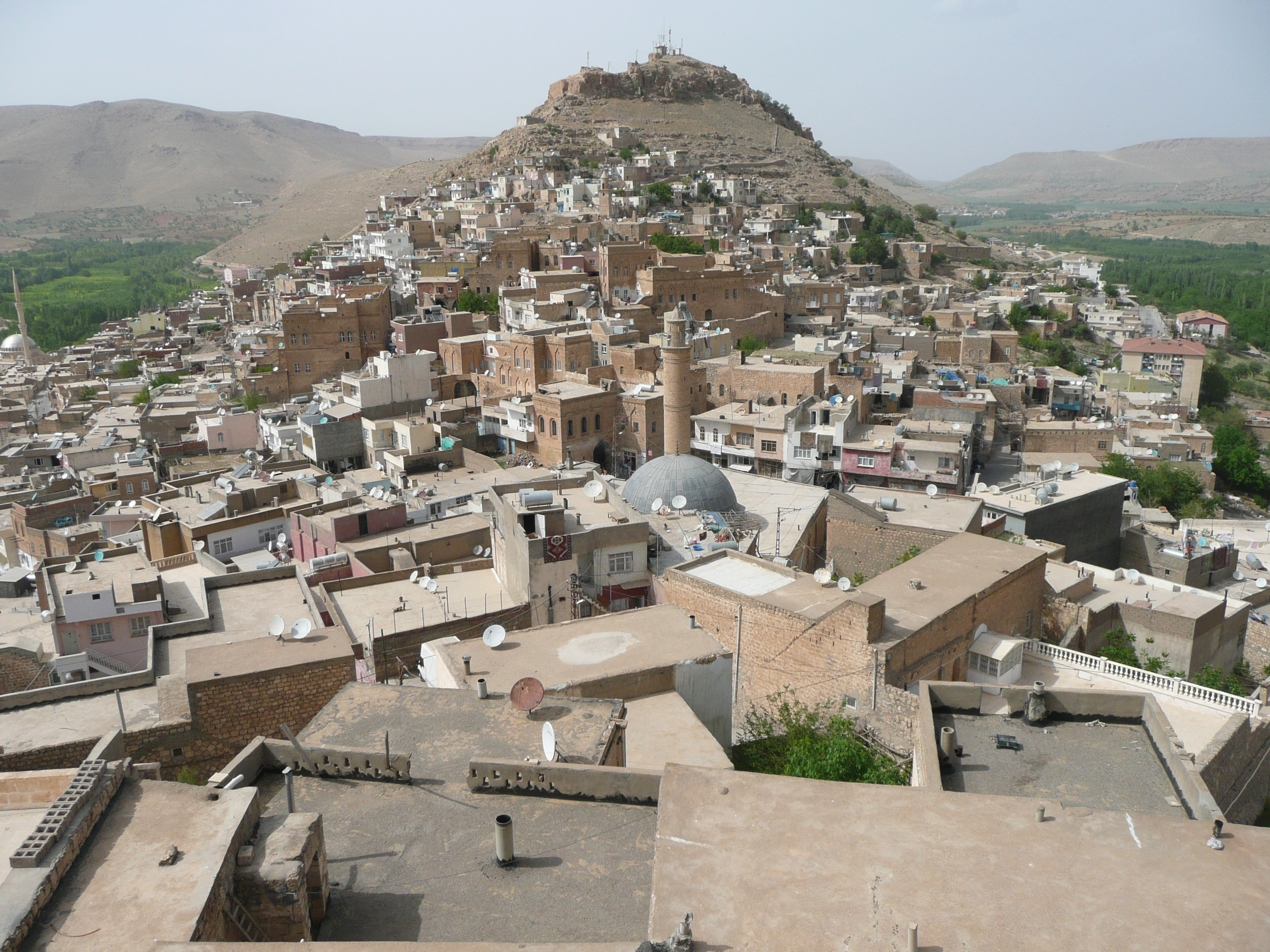 Photographs from Savur, Mardin, Turkey